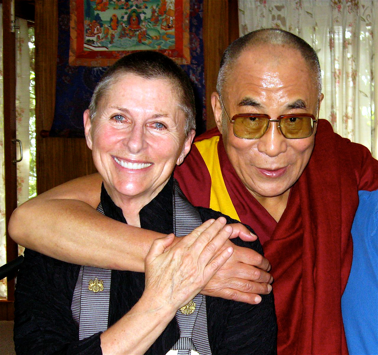 Photograph owner: Joan Halifax Joan Halifax (b. 1942) is a Zen Buddhist priest who received inka from Tetsugen Bernard Glassman, and was given the Lamp Transmission as a Dharmacharya (Dharma teacher) by Thich Nhat Hanh. She has been practicing Zen Buddhism since 1965. She was ordained by the Korean Zen Master Seung Sahn and became a teacher in the Kwan Um Zen School. Joan is head abbess and founder of the Upaya Zen Center in Santa Fe, NM. The Upaya Zen Center is non-sectarian and has guest speakers from many traditions. She helped to found the Zen Peacemaker Order, and has held various teaching positions in institutions as prestigious as Harvard University. Tenzin Gyatso (born 6 July 1935) is the fourteenth and current Dalai Lama. He is often referred to simply as the Dalai Lama. He is a practising member of the Gelug School of Tibetan Buddhism and is influential as a Nobel Peace Prize laureate, as the world's most famous Buddhist monk, and is leader of the exiled Tibetan government in India.